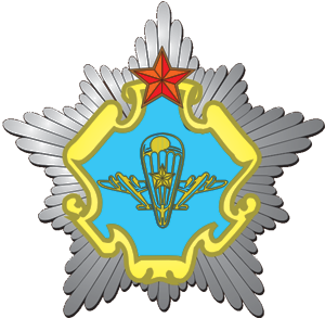 Insignia of Belarus Paratroops - Special Operations Command